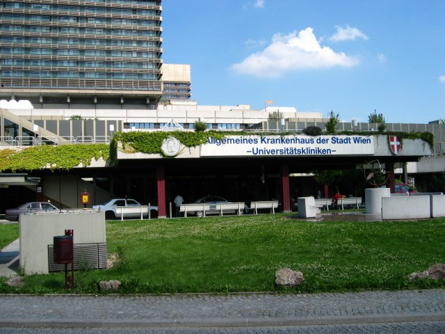 main entrance of the AKH hospital in Vienna, Austria